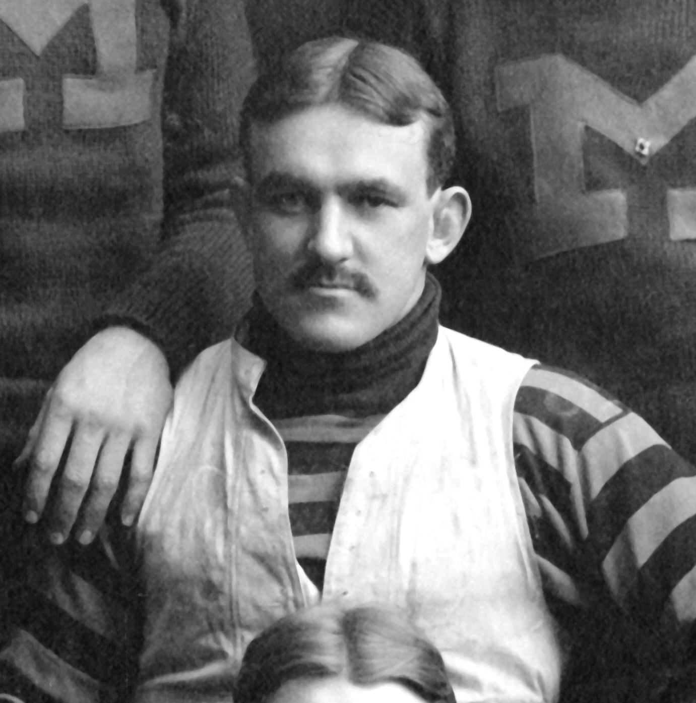 Photograph of Allen Steckle